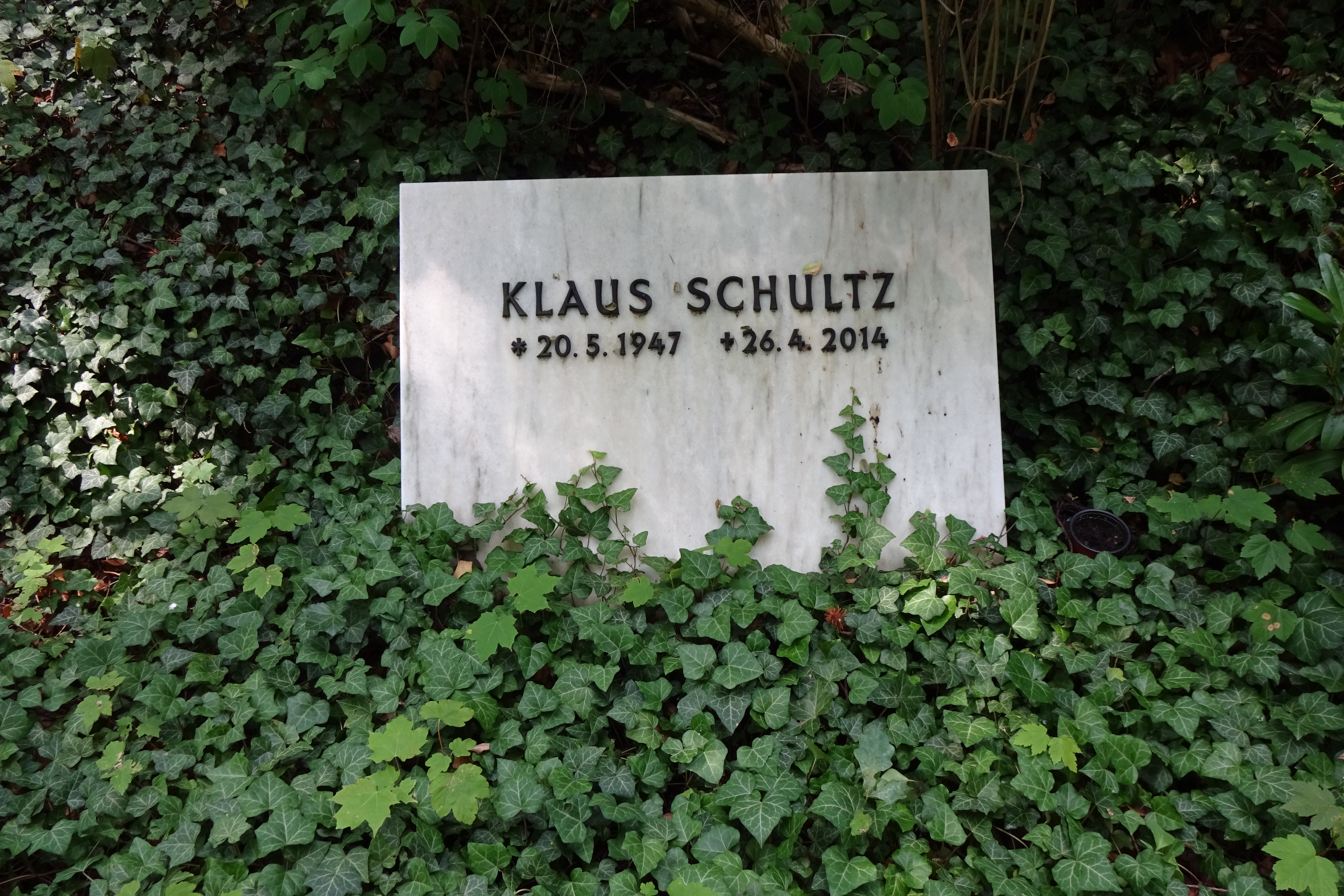 Grave of German impresario and dramaturg Klaus Schultz in Friedhof Heerstraße in Berlin-Westend